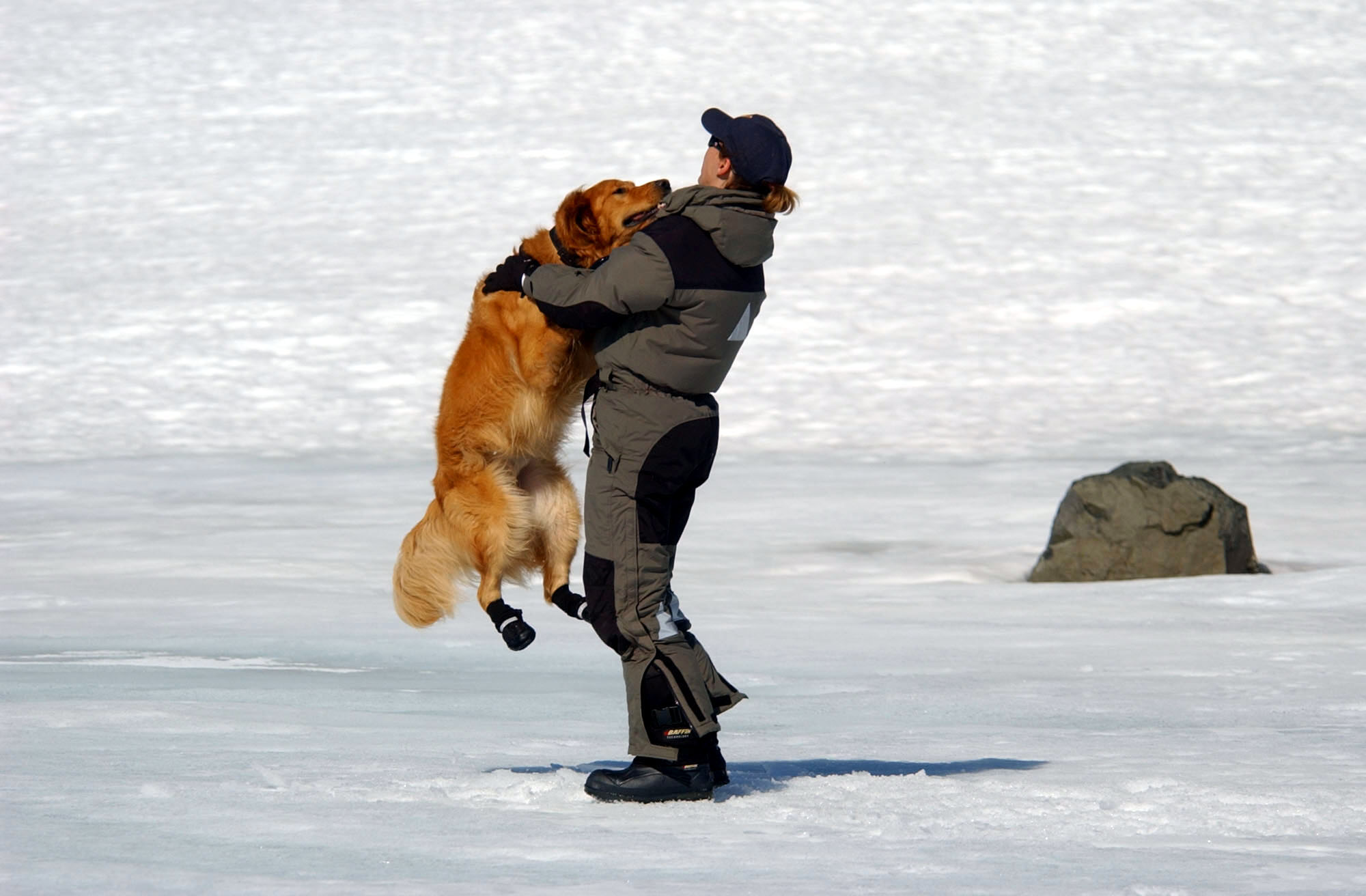 Greenland (Aug. 8, 2004) - Susan Frank, a Volunteer from Bucks County Search and Rescue takes a moment to relax while playing with cadaver dog, Tucker during the recovery of a Navy P-2V Neptune aircraft that crashed in Greenland in 1962. The Navy is currently conducting recovery operations in Greenland to bring back any human remains. U.S. Navy photo by Photographer’s Mate 2nd Class Jeffrey Lehrberg (RELEASED)